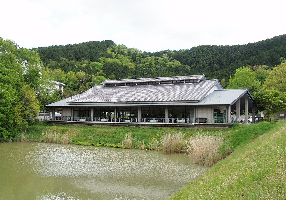 Cafeteria (Fuyo Hall) of the University of Fukuchiyama located in Fukuchiyama, Kyoto, Japan.